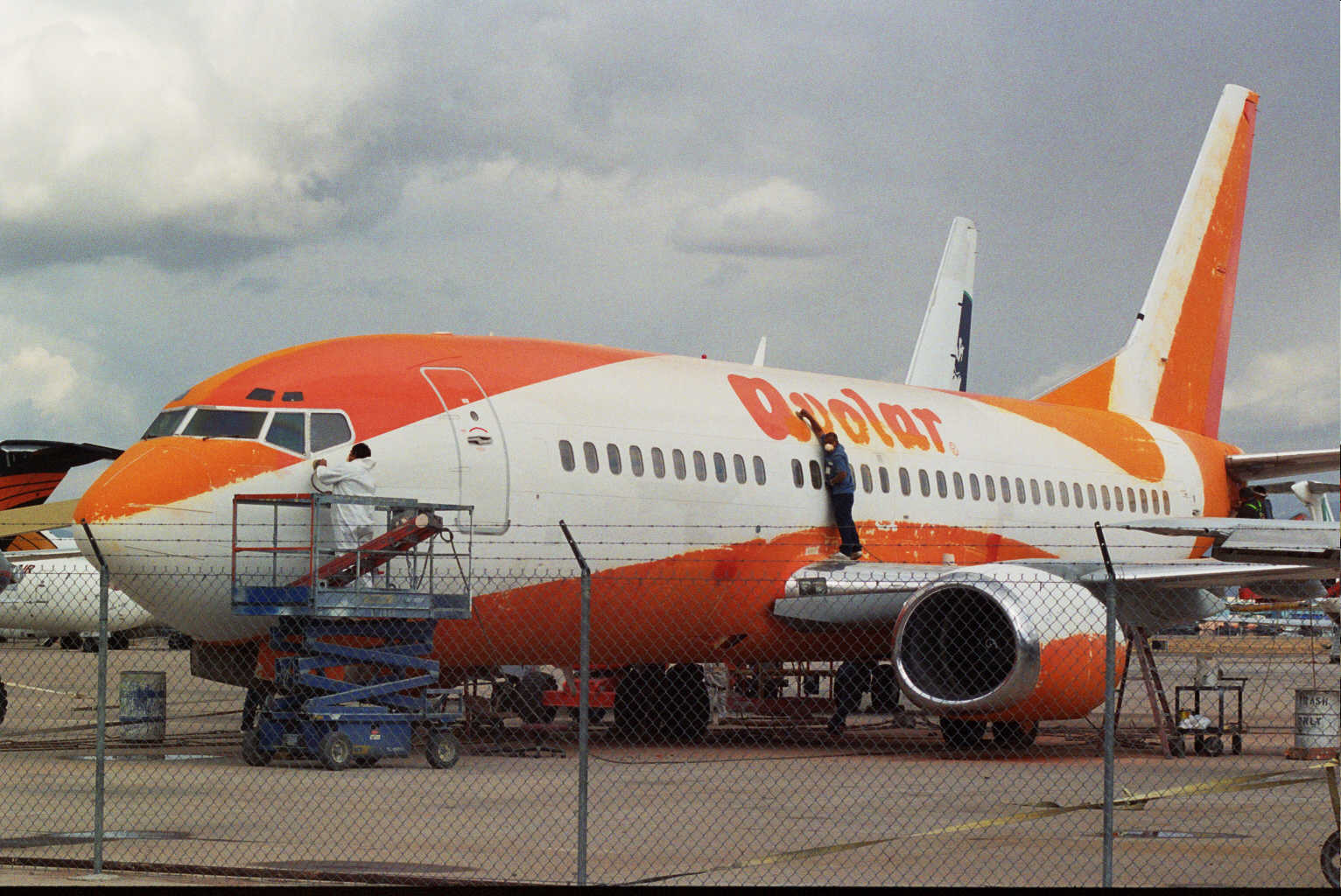 will be registered as EI-DNY for Avolar. Tucson - International (TUS / KTUS) USA - Arizona, February 16, 2007.